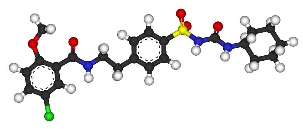 Ball-and-stick model of glibenclamide (INN), also known as glyburide. Created using Accelrys DS Visualizer Pro 1.6 and GIMP.